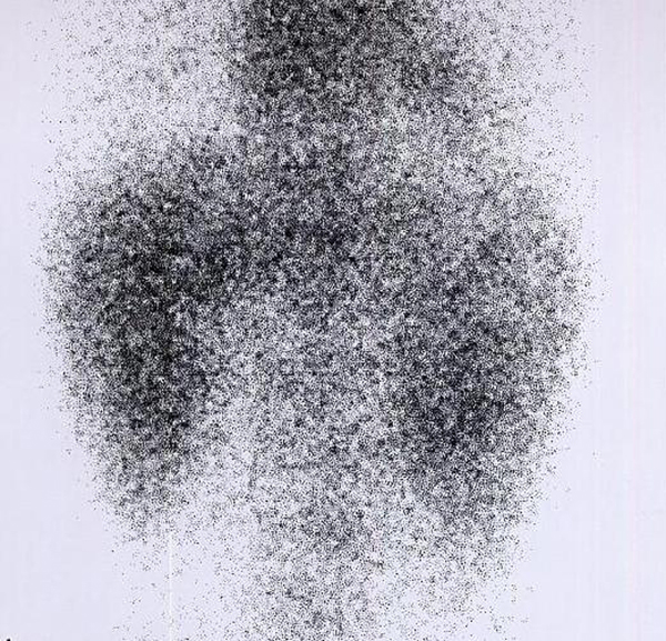 The posterior image shows decreased radiotracer uptake in both kidneys. Radiotracer uptake in the liver and background is increased. This pattern is suggestive of renal failure.